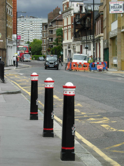 Golden Lane The three colourful bollards bear the City Of London's traditional griffin - they mark the northern boundary of the City. In fact, this end of Golden Lane was never traditionally part of the City of London at all, but was transferred from the Borough of Islington in 1994 so as to bring the Golden Lane Estate (which had always been owned by the Corporation of London) within the City's boundary.